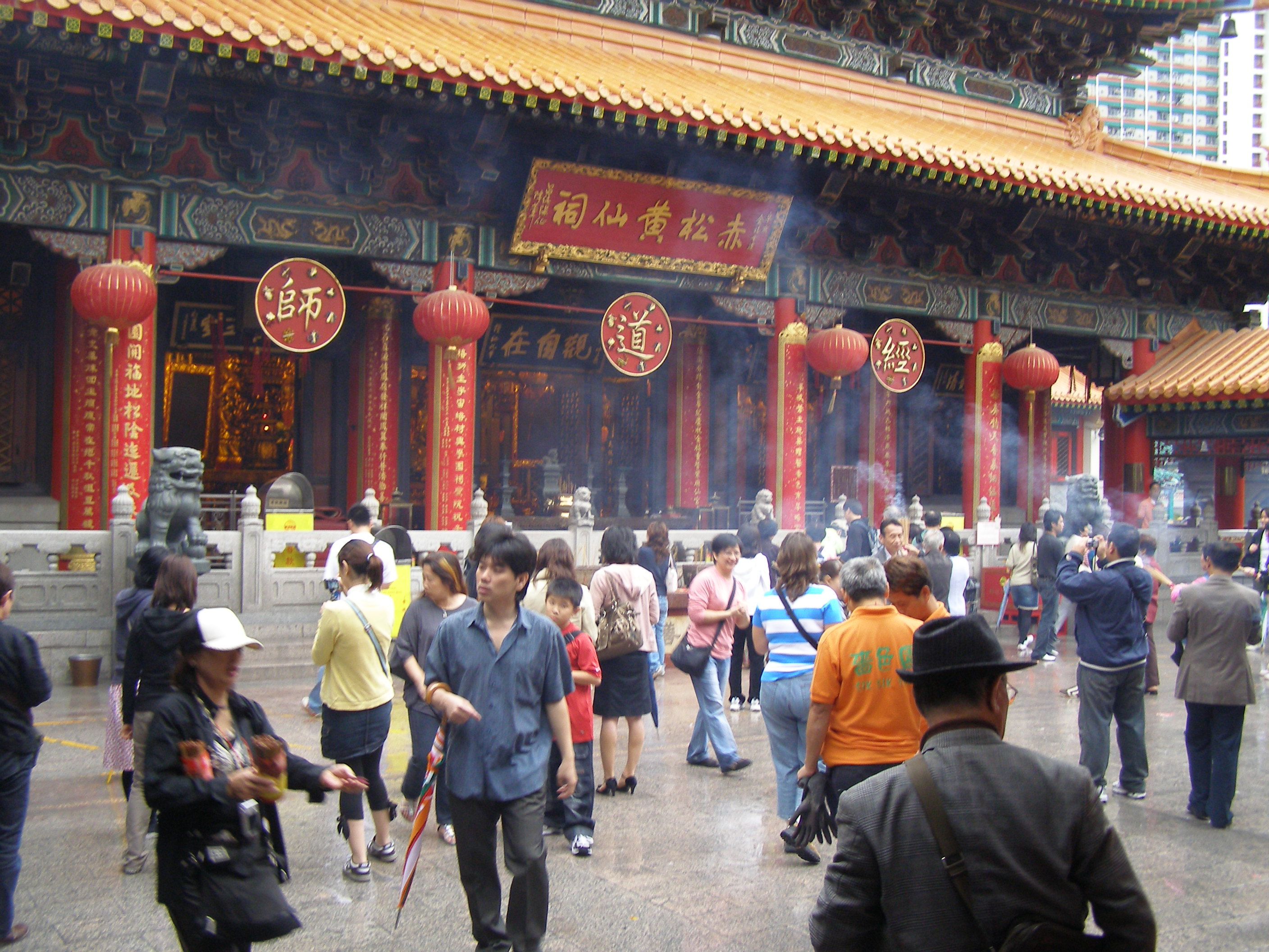 Wong Tai Sin Temple Foyer, Wong Tai Sin District, Hong Kong SAR, P.R.O.China Author: Maccess Corporation assignee of Alex Timbol